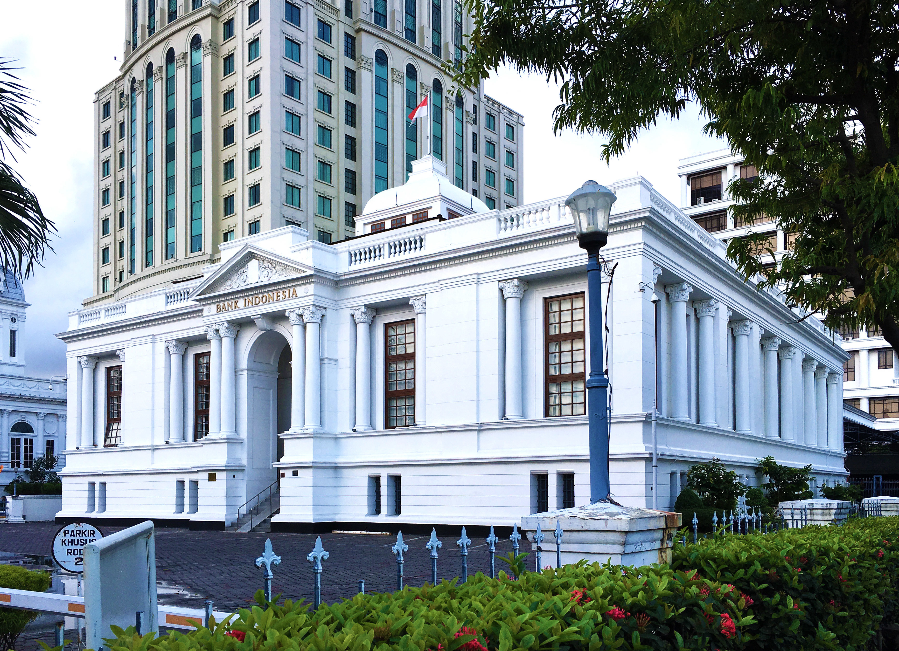 Bank Indonesia, Medan (1910)